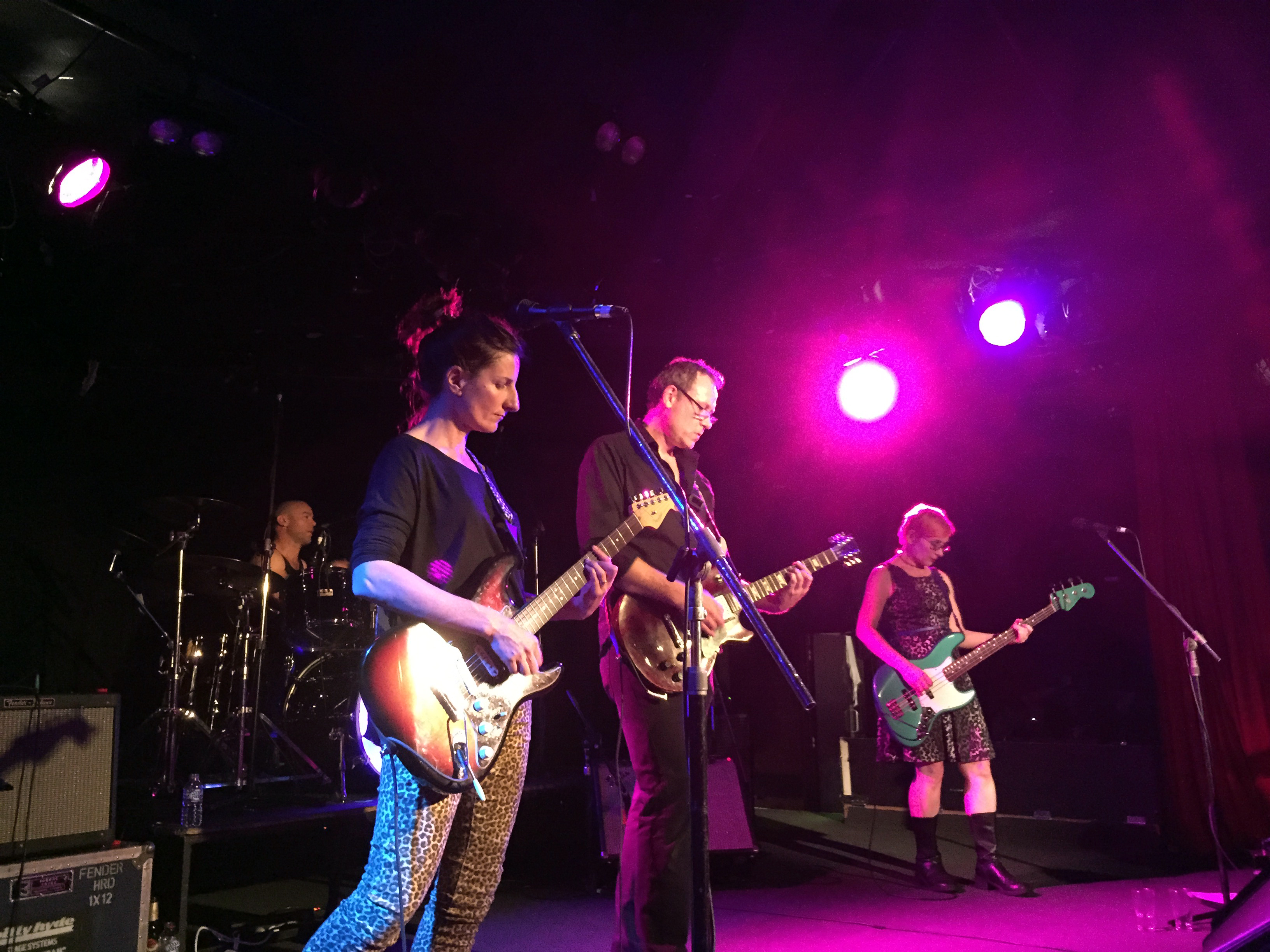 Australian band The Clouds performing at The Corner Hotel, Melbourne. Left to right: Raphael Whittingham (drums), Jodi Phillis (guitar, vocals), David Easton (guitar), Trish Young (bass, vocals)